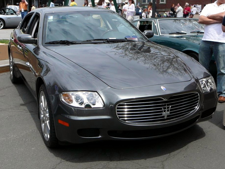 2006 Maserati Quattroporte.